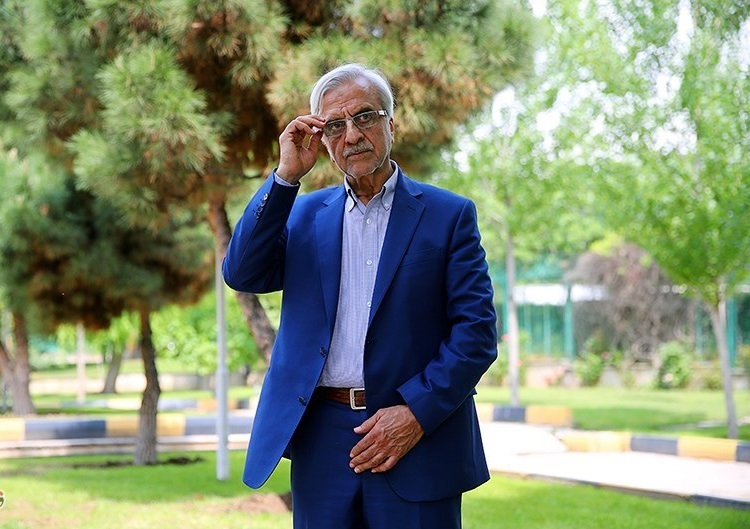 Iranian presidential candidate, Mostafa Hashemitaba at Young Journalists Club